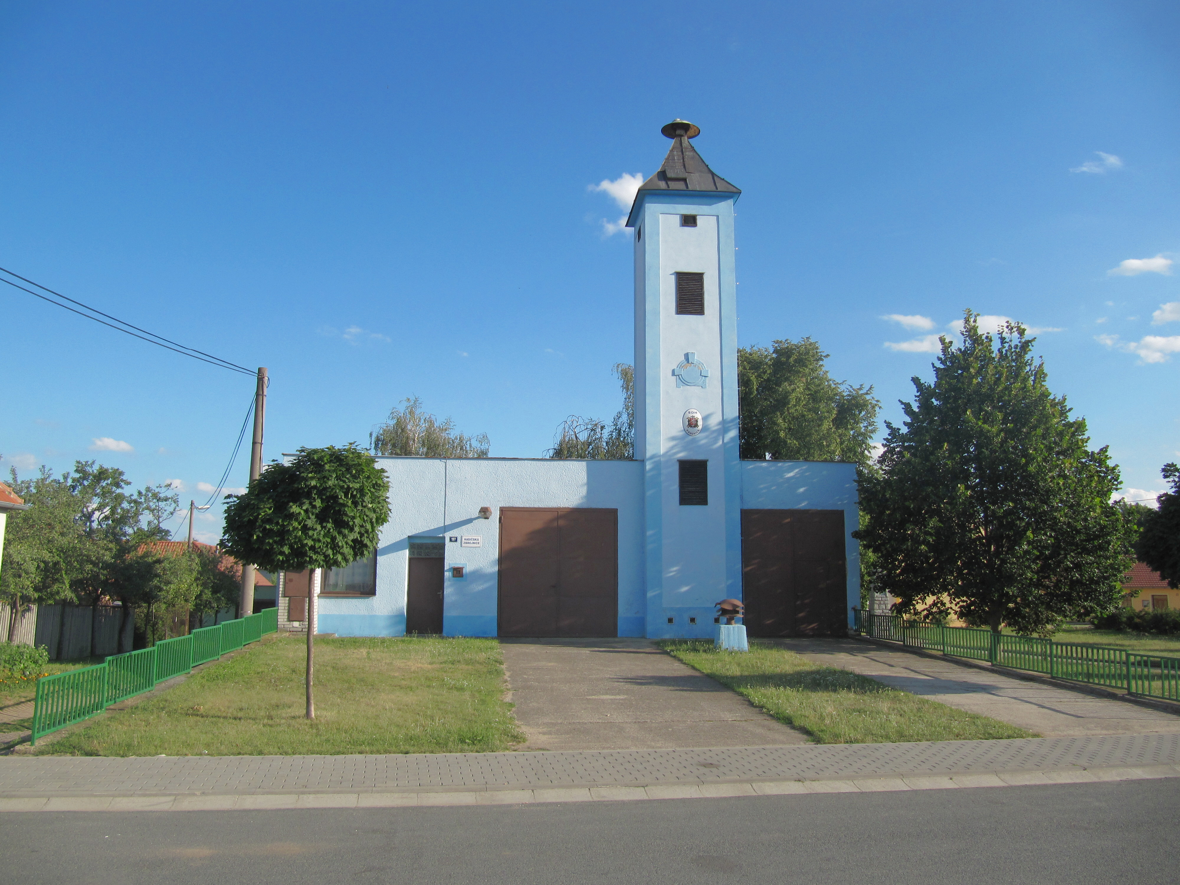 Krhovice in Znojmo District, Czech Republic. Fire station.